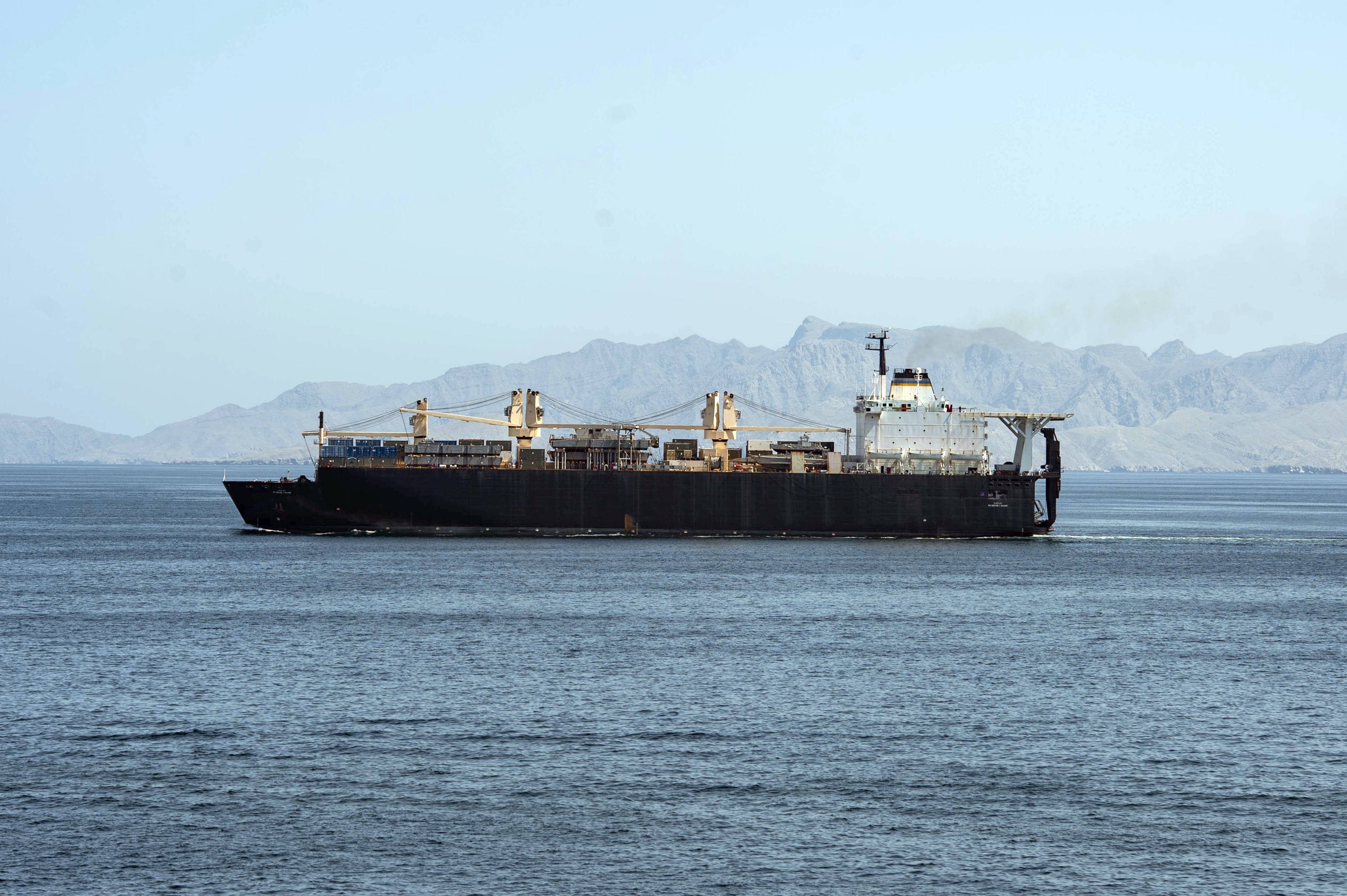 The U.S. Military sealift command dry cargo ship USNS PFC Dewayne T. Williams (T-AK-3009) transits the Strait of Hormuz on 17 April 2020.